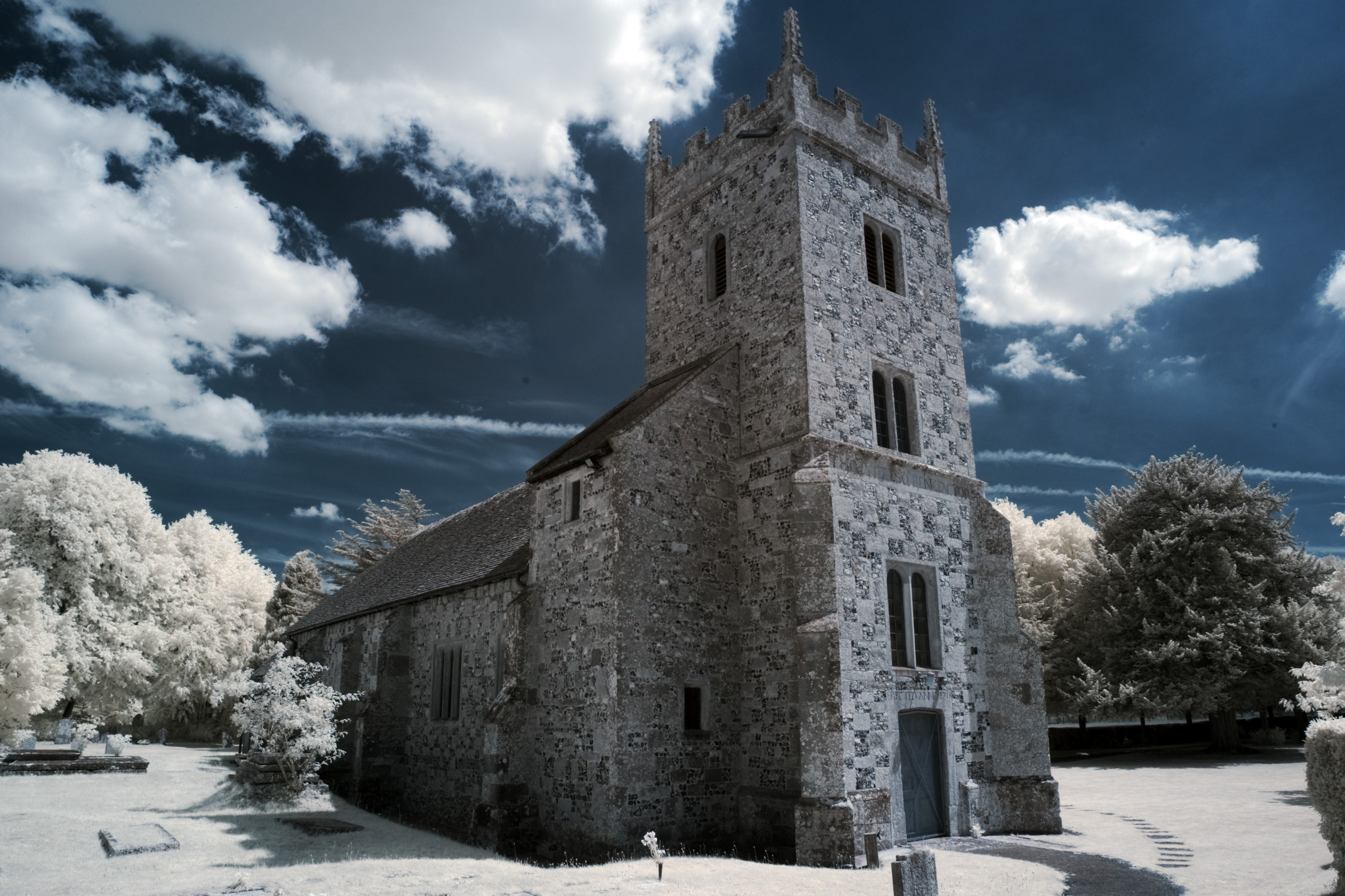 St Lawrence, Stratford-sub-Castle, in infrared.